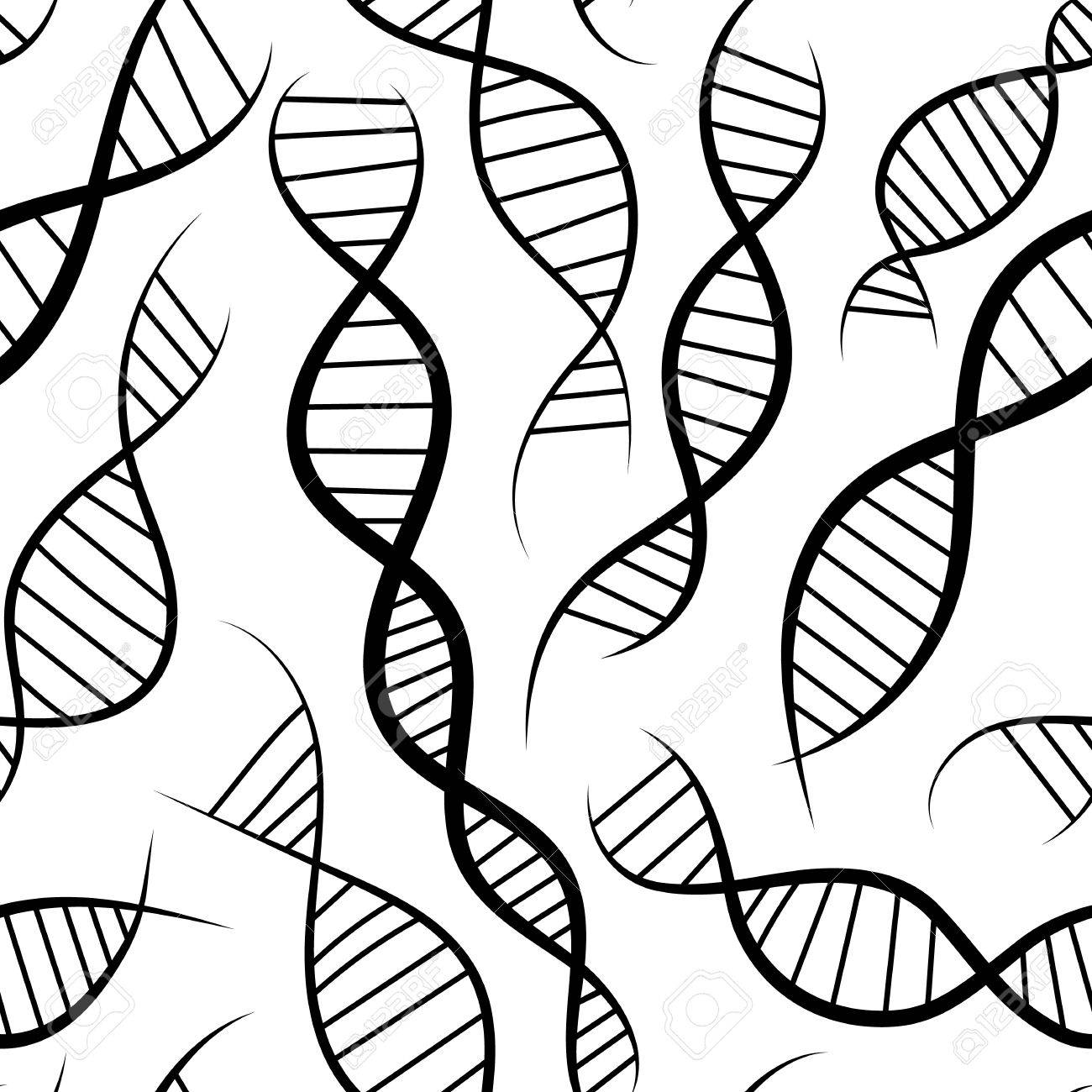 scientific background, seamless pattern with DNA, the genetic spiral